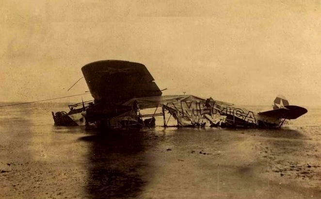 Les restes de l'America sur la plage de Ver-sur-mer The Fokker C.2 at the end of its Transatlantic flight in 1927.